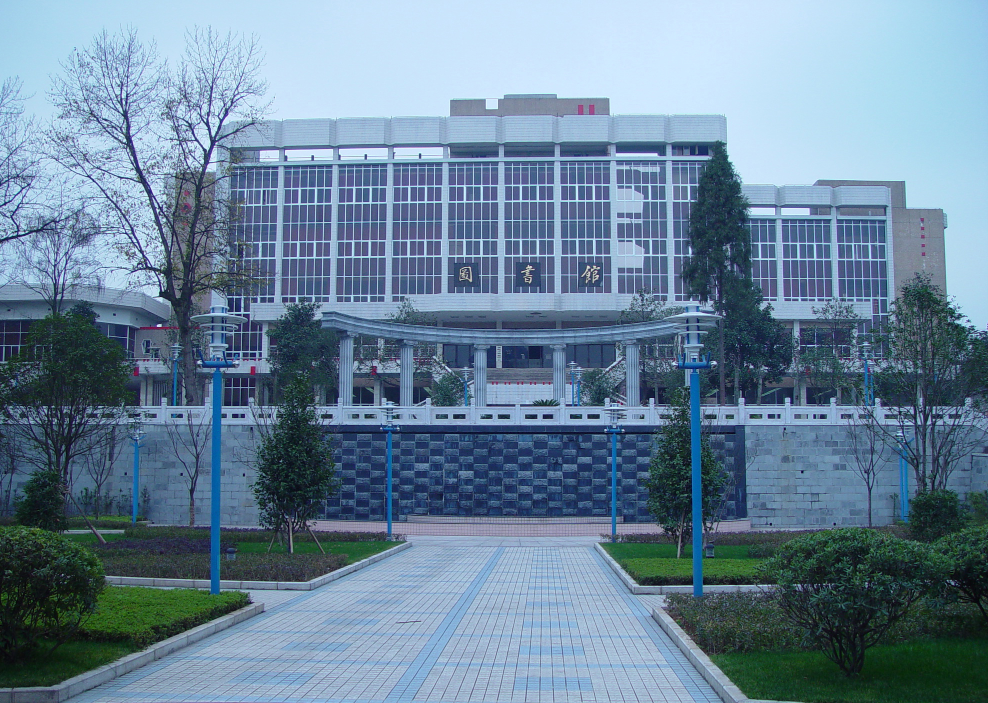 Library of Guizhou University, North Campus, Guyang, Guizhou, China